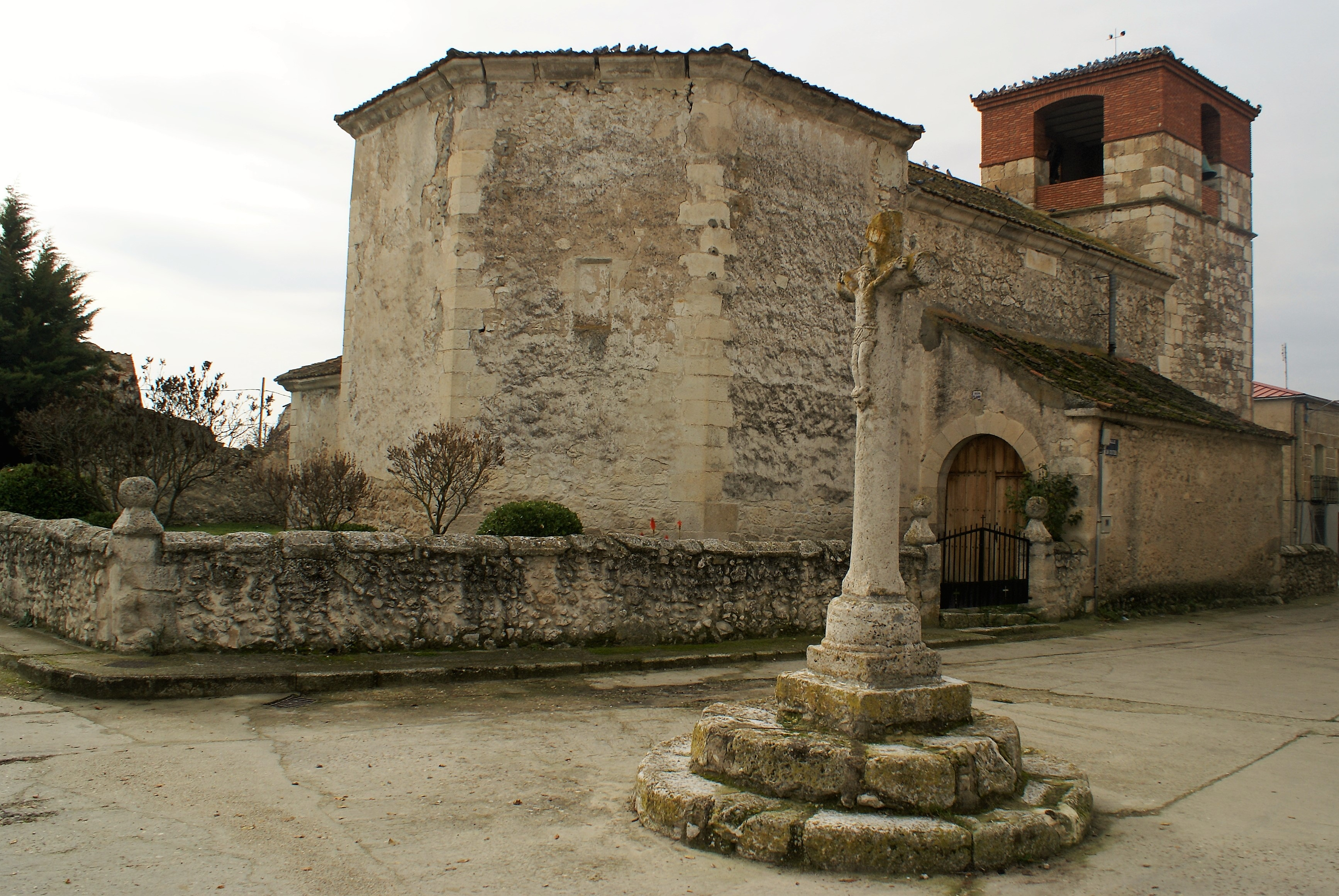 Church of Santa María, Torregutiérrez, Segovia, Spain.